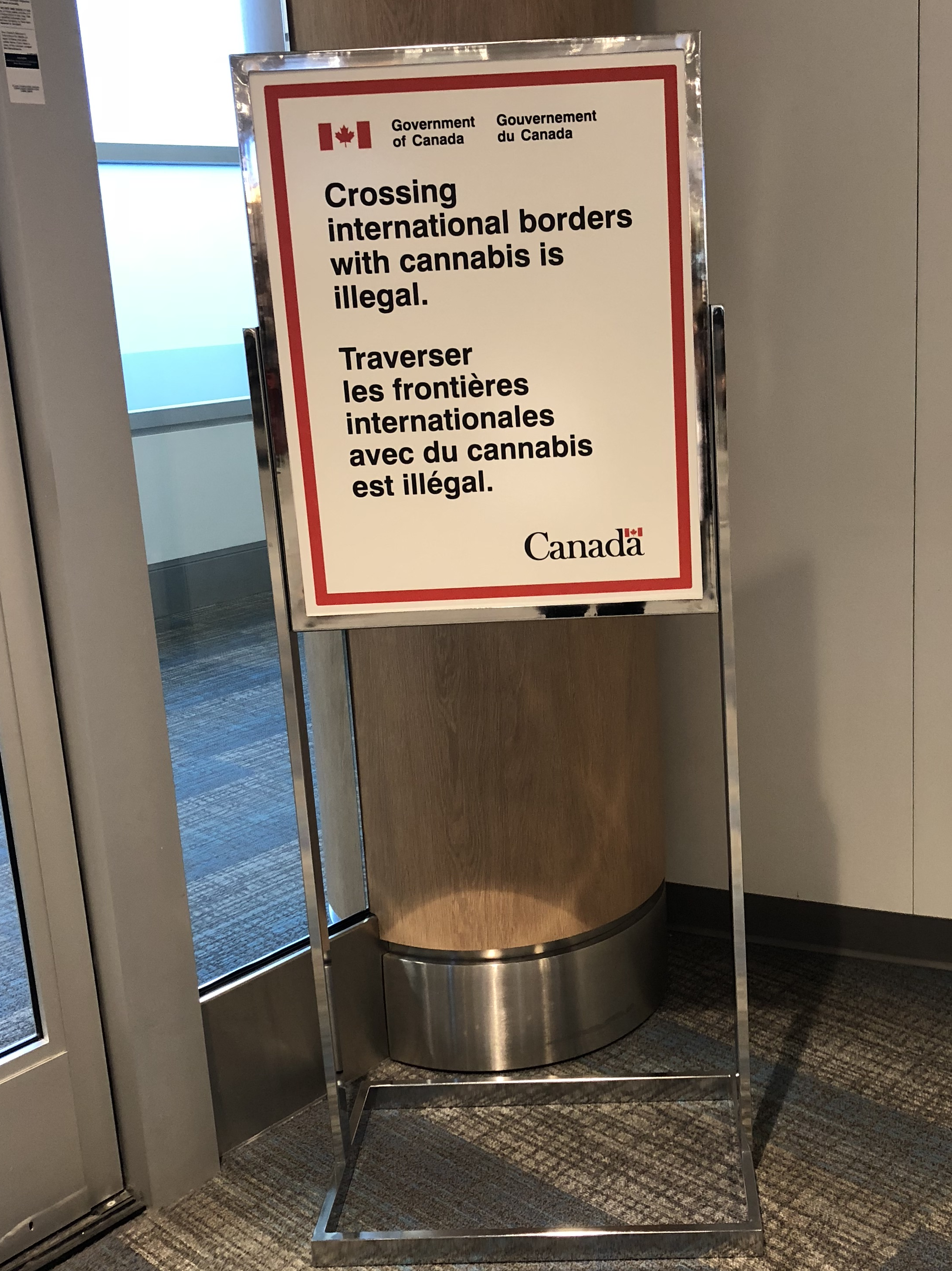 Signage displayed at flight departure gates, at Billy Bishop Toronto City Airport (YTZ) for each outbound United States destination, on 19 October 2018.